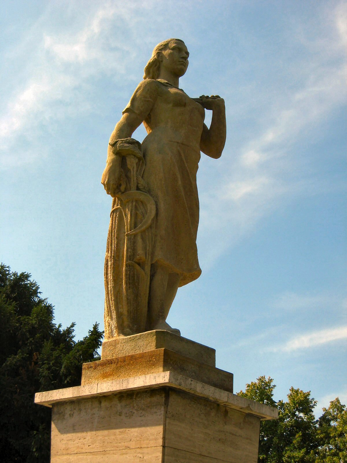 Statue of a proletar woman from the ages of communism in town Šurany, Slovakia.